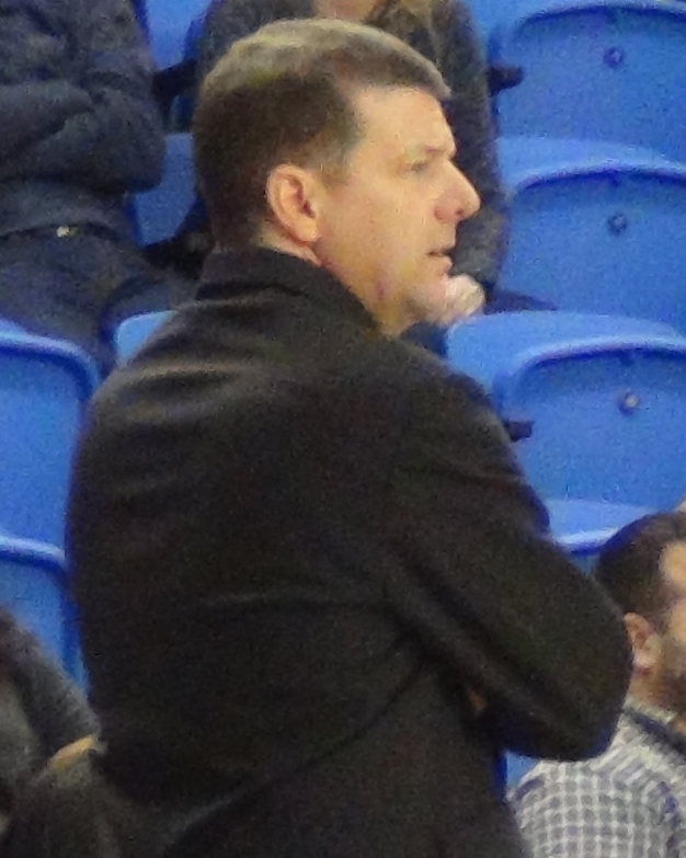 Mike Bradbury, University of New Mexico women's basketball head coach at the Event Center in San Jose, Calif. during New Mexico's game at San Jose State on Feb. 4, 2017.